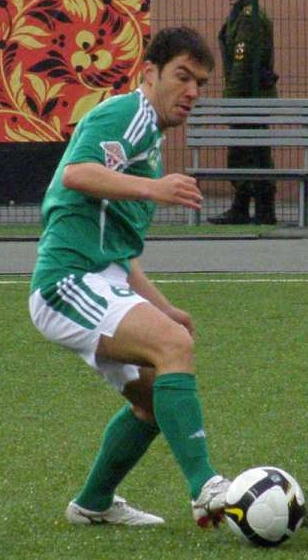 Silviu Andrei Mărgăritescu in action for FC Terek